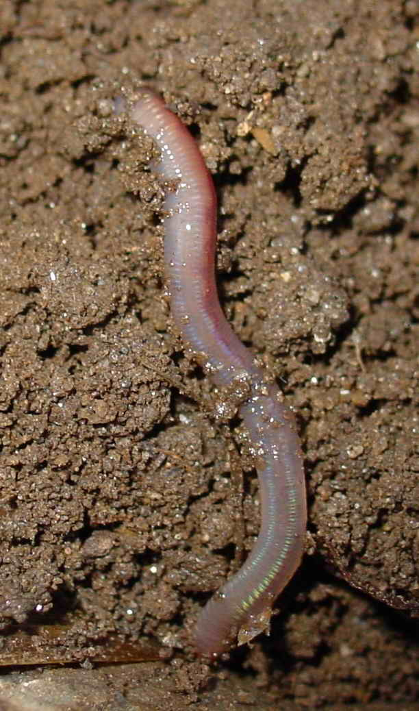 Earthworm in soil in Bastabales